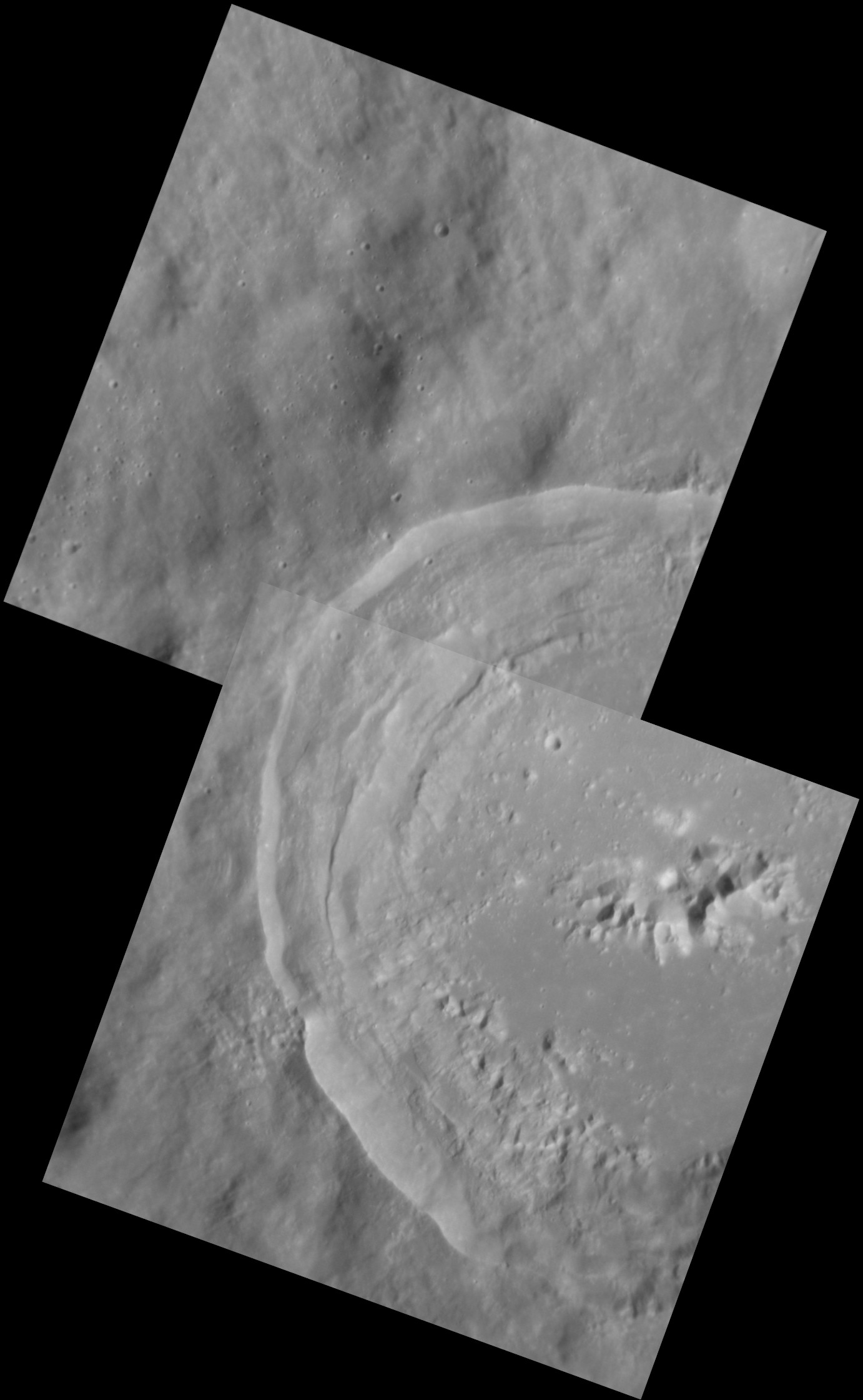 Bek crater on Mercury. Mosaic of MESSENGER Narrow Angle Camera images. These are the highest-resolution images of this crater acquired by MESSENGER. North is at top. Statistics for top image (EN0238697075M): Emission Angle: 0.2 Incidence Angle: 53.9 Latitude: 21.0 Longitude: 308.9 Phase Angle: 54.0